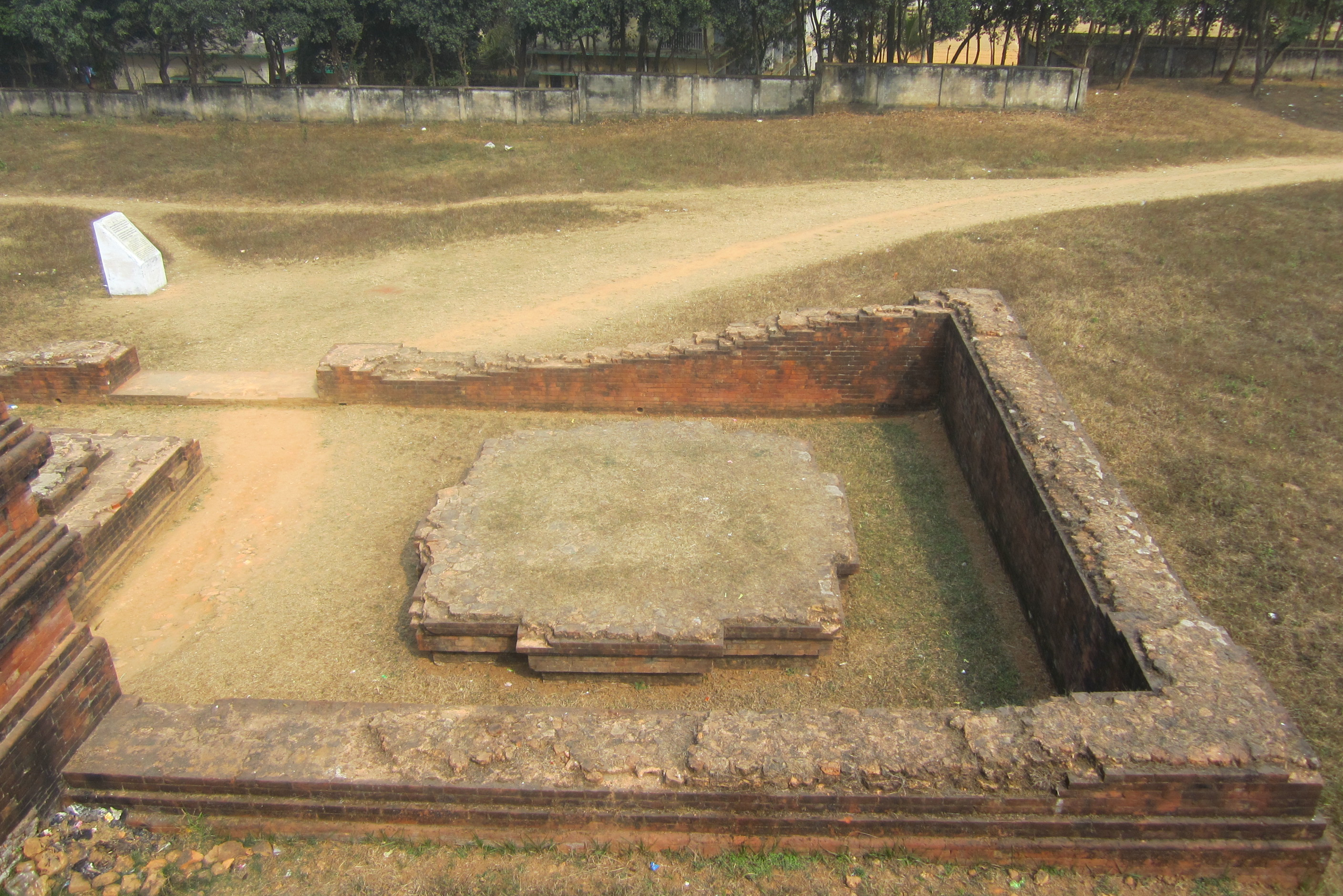 Itakhola Mura, is a archaeological sites in Comilla, Chittagong, Bangladesh.